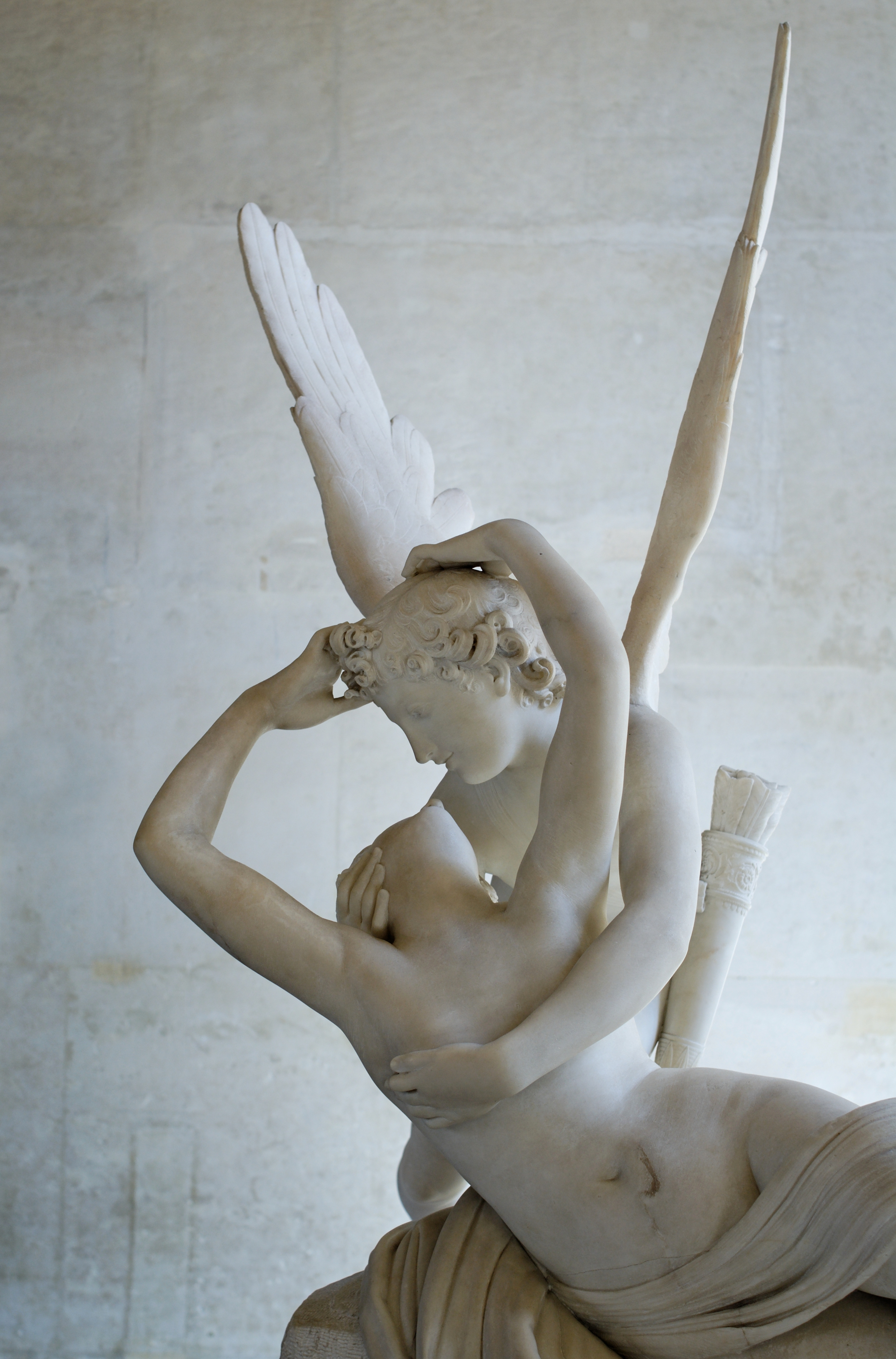 Detail from Psyché ranimée par le baiser de l'Amour (Psyche revived by the kiss of Love). Marble, 1793.